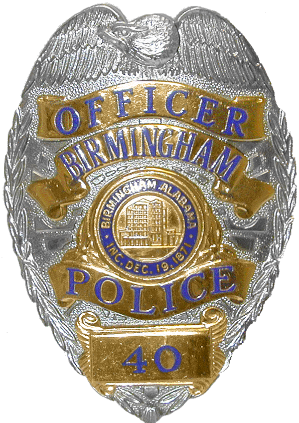 Image is similar, if not identical, to the Birmingham, Alabama Police Department badge. Made with Photoshop.